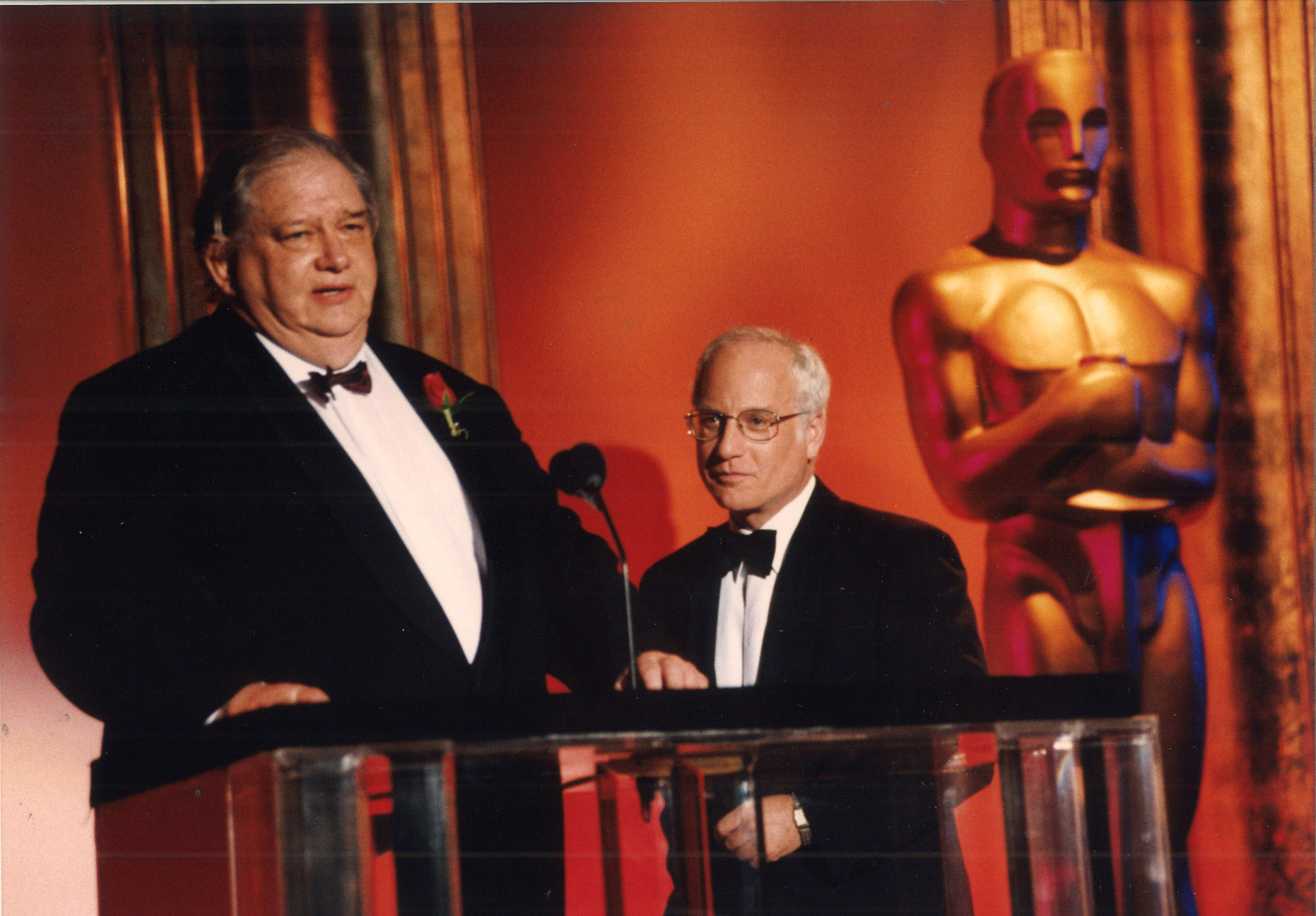 Peter Denz along with award presenter Richard Dreyfuss at the Oscars in 1996. On March 25, 1996, Peter Denz received the Academy Award for technical merits (Technical Achievement Award) for the development of a flicker-free color video camera.